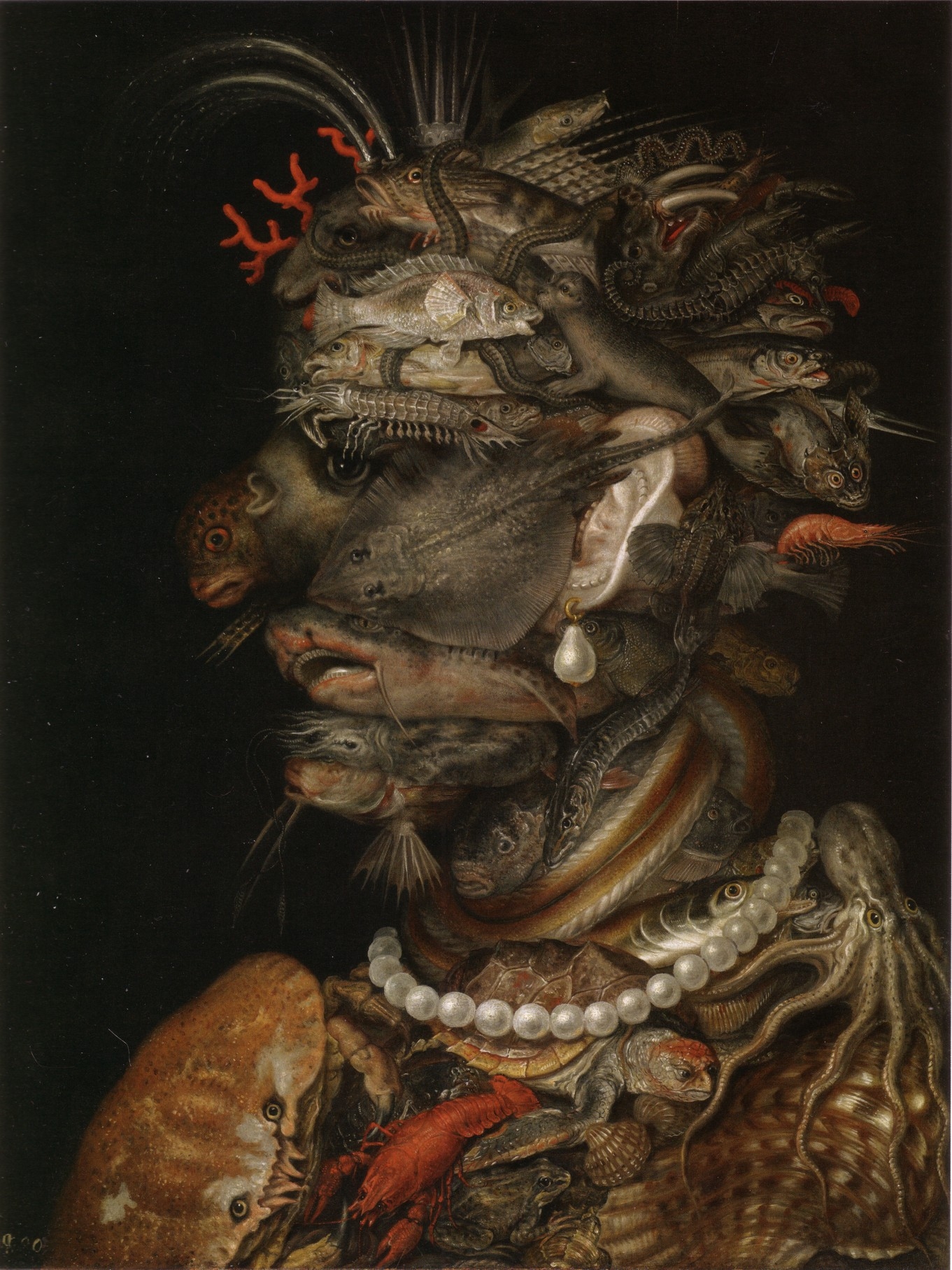 The Water